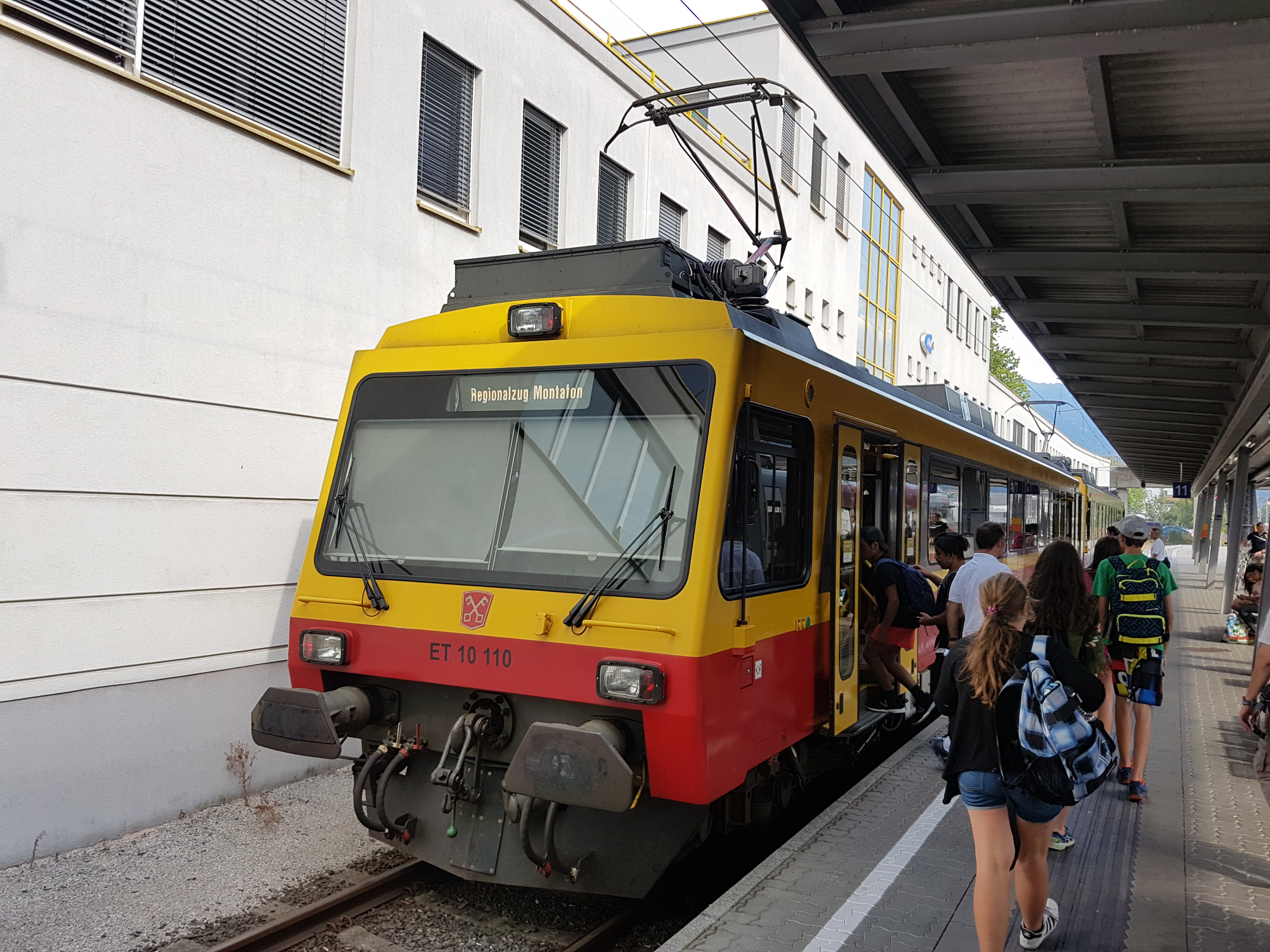 Montafonerbahn in the station Bludenz.